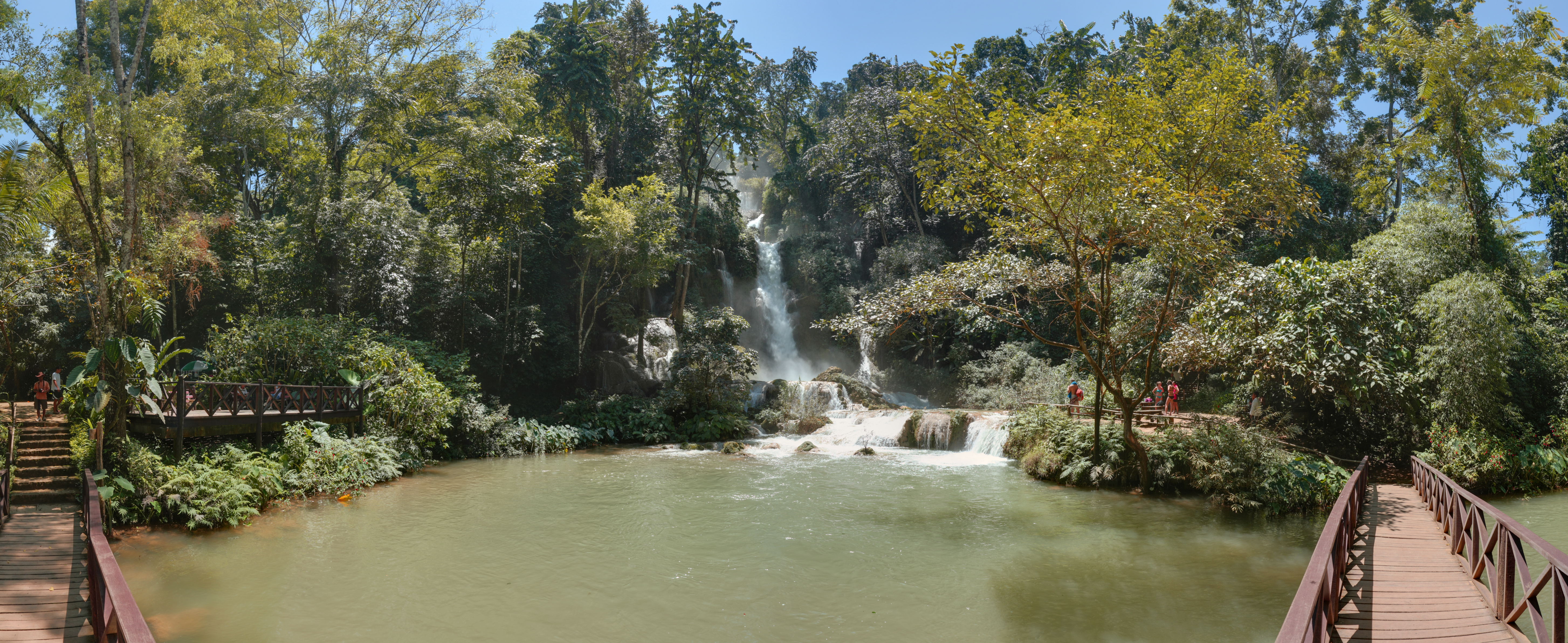 Kuang Si waterfalls, in the south of Luang Prabang, Laos. This panorama is made from 13 shots and has a 246° field of view.